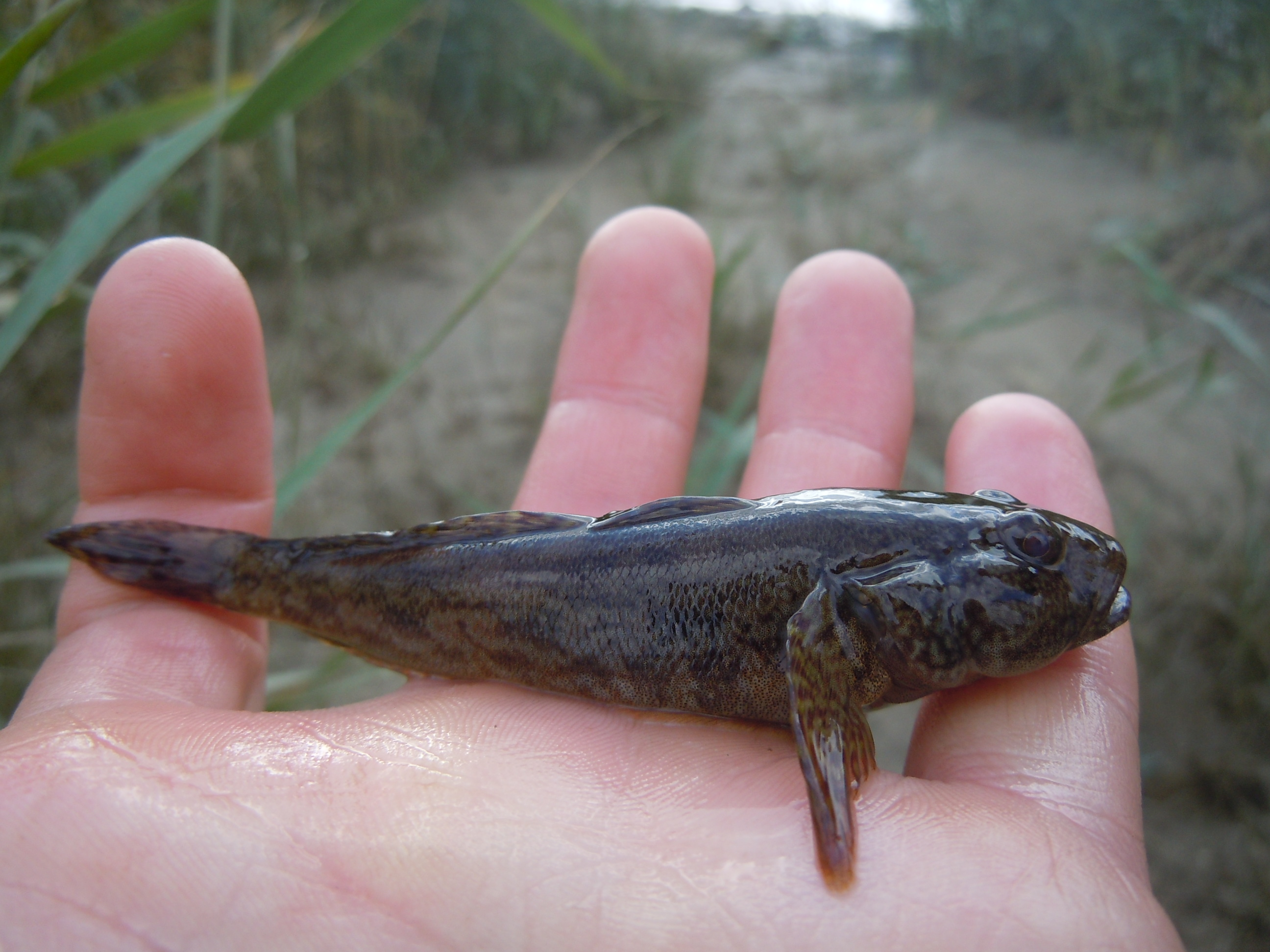 Gorlap goby (Ponticola gorlap) from the Volga River near Volgograd, Russia